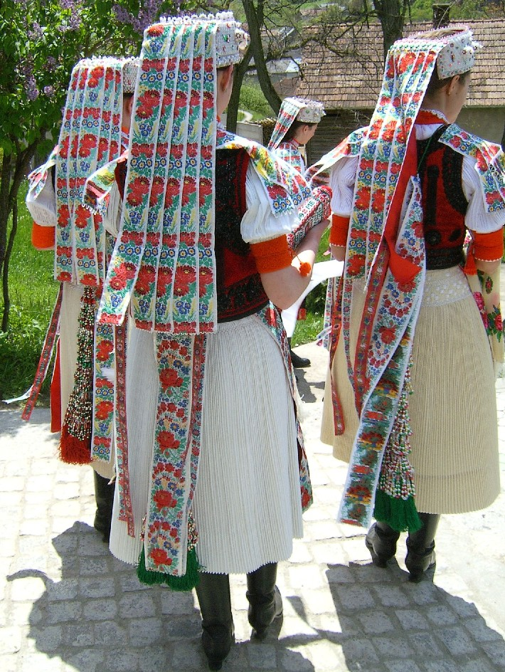 Traditional clothing of the non married women's, Izvoru Crişului; Transylvania